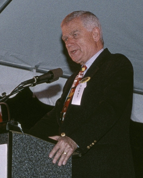 U.S. Senator Mark Hatfield speaking at a ceremony marking the start of tunnel construction for TriMet's Westside Light Rail line (Portland–Hillsboro), now part of the MAX system's Blue Line.